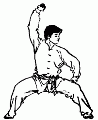 "Mabu posture". Also called "Horse stance"